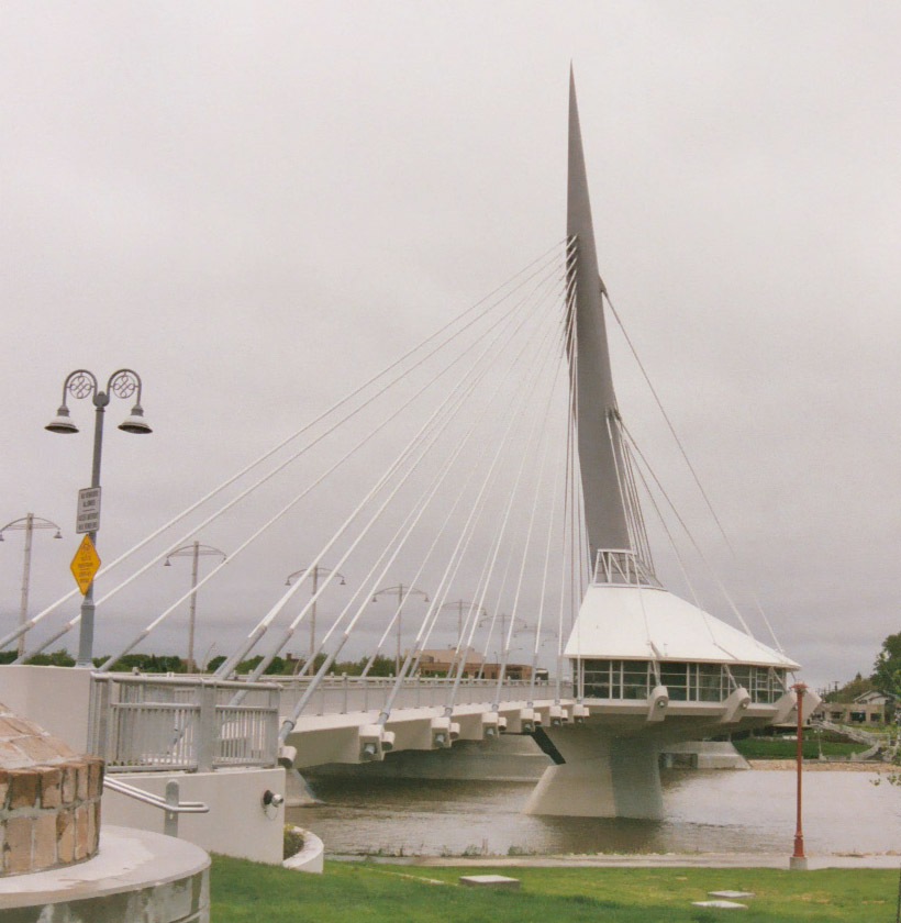 Provencher Bridge/Esplanade Riel, a Side spar cable stay bridge in Winnipeg, Manitoba, Canada. Image taken June, 2004 by User:Leonard G. Image 1 of 2, other is Image:SideSparCableStayBridge2.jpg